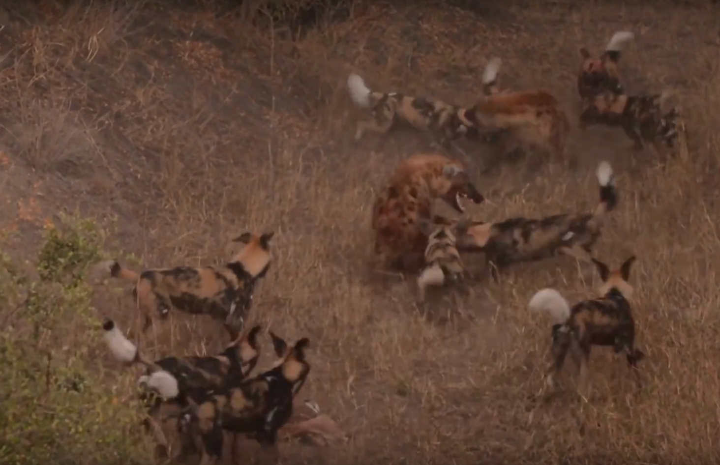 African wild dogs defending their kill from spotted hyenas in Kruger National Park